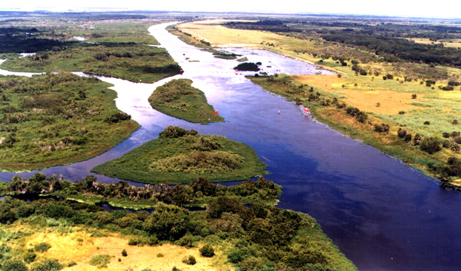 A stretch of the Kissimmee River in central Florida, USA. The original meandering river path was widened, straightened, and excavated by the U.S. Army Corps of Engineers between 1962 and 1971 for flood control in central Florida. As of 2007, the Kissimmee River Restoration Project is underway to restore parts of the river to its original condition.